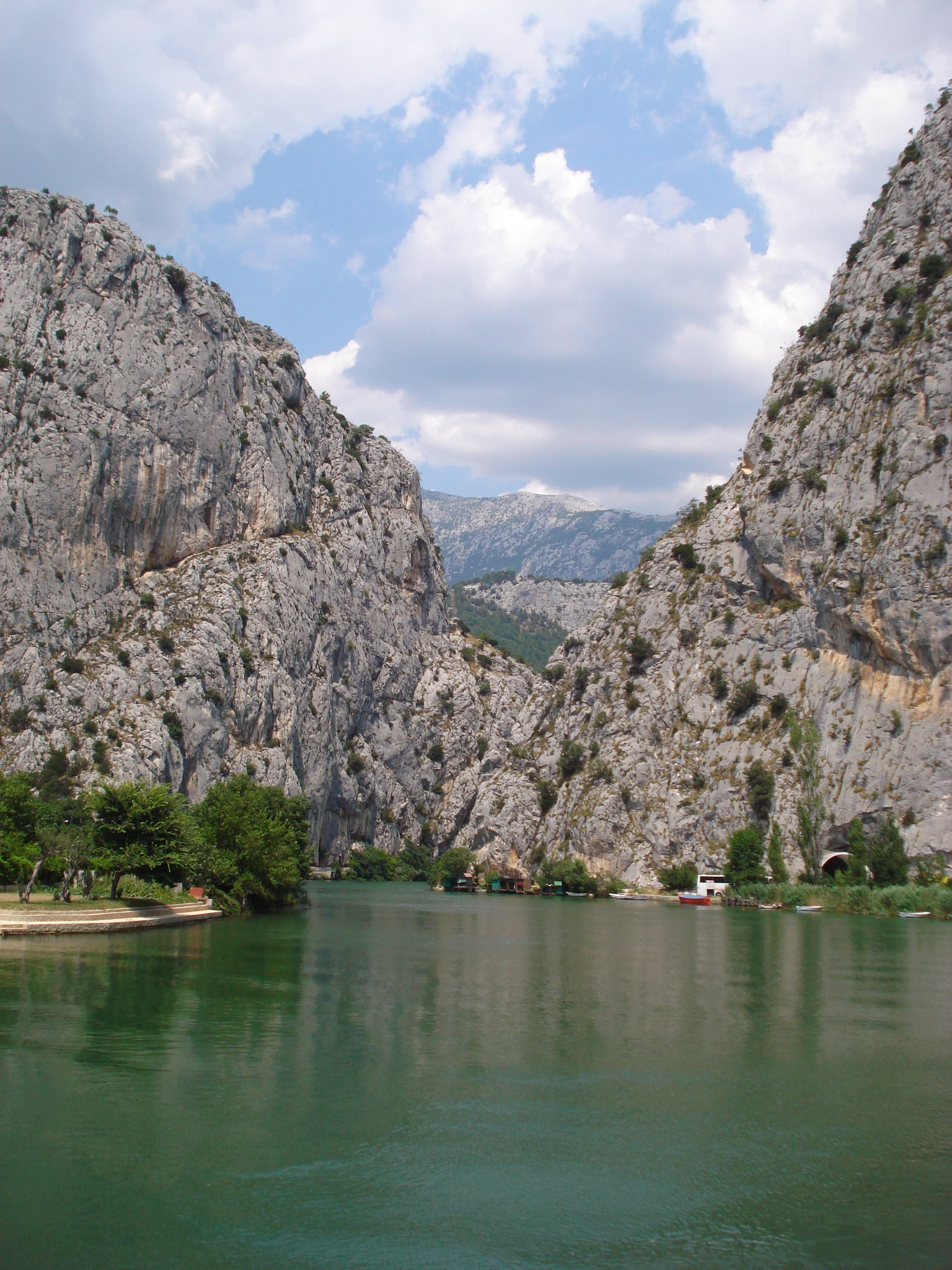 Cetina River in Omiš - canyon